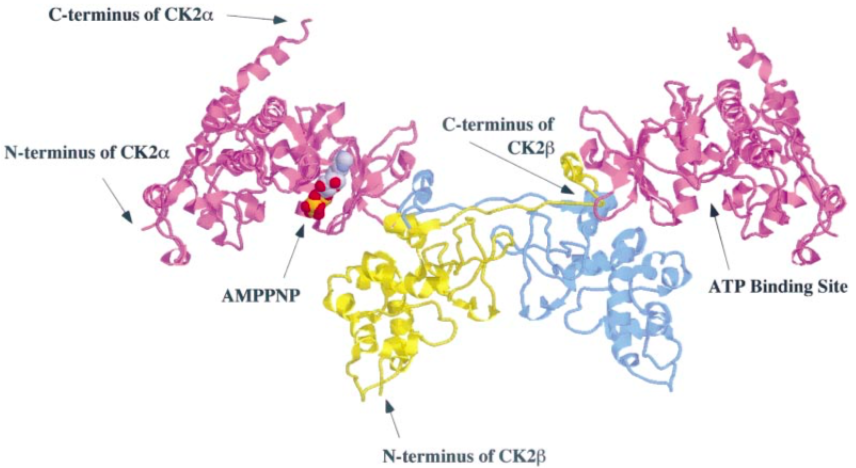 Ribbon Diagram of CK2 Structure